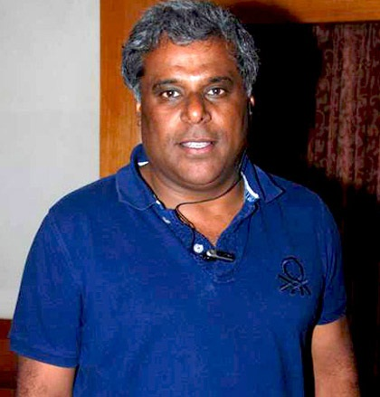 Aashish Vidyarthi at Red Alert - The War Within - Press Conference